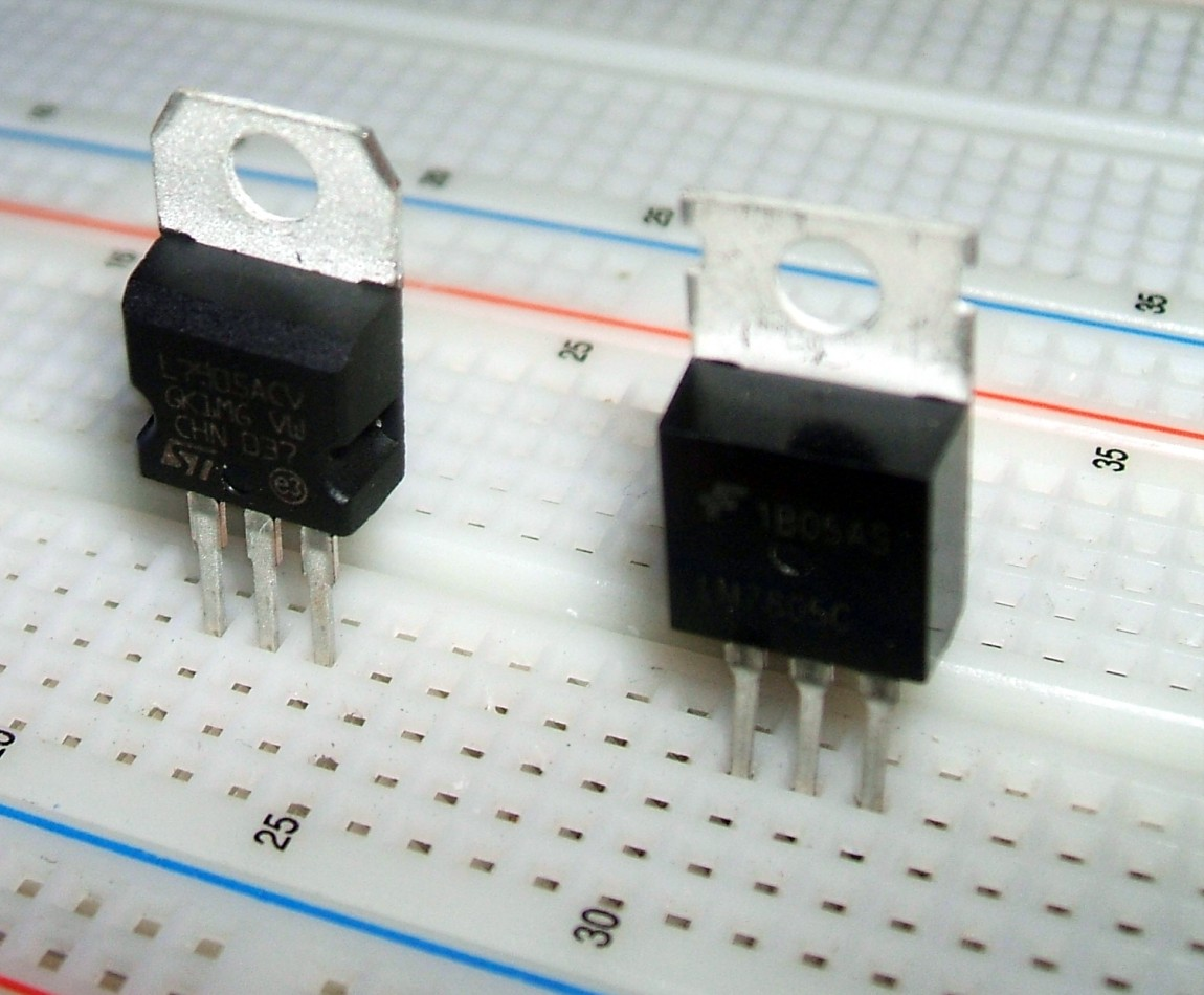 Voltage Regulators. 7805 is the Left and the Right Hand is 7905